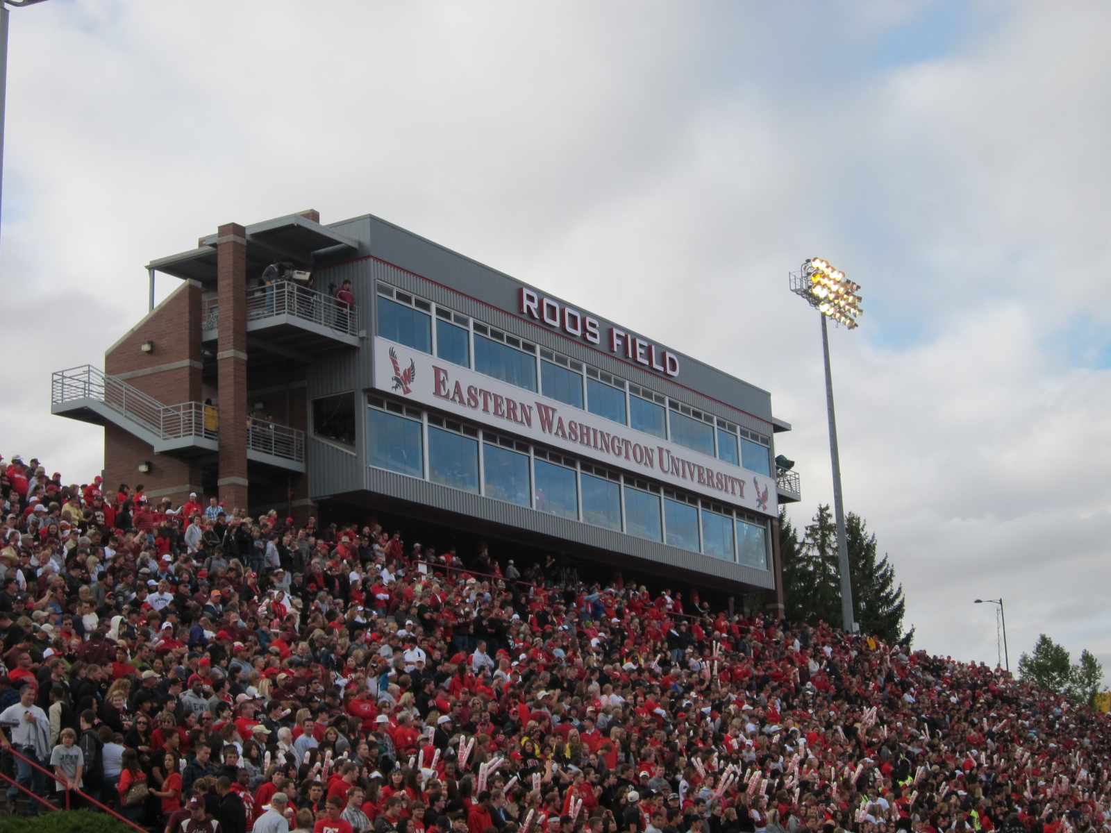 Picture of Roos Field - football stadium for the Eastern Washington University Eagles